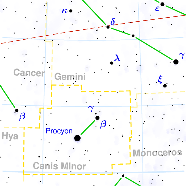 Canis Minor constellatioon map